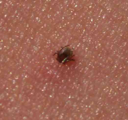 a tick biting a human